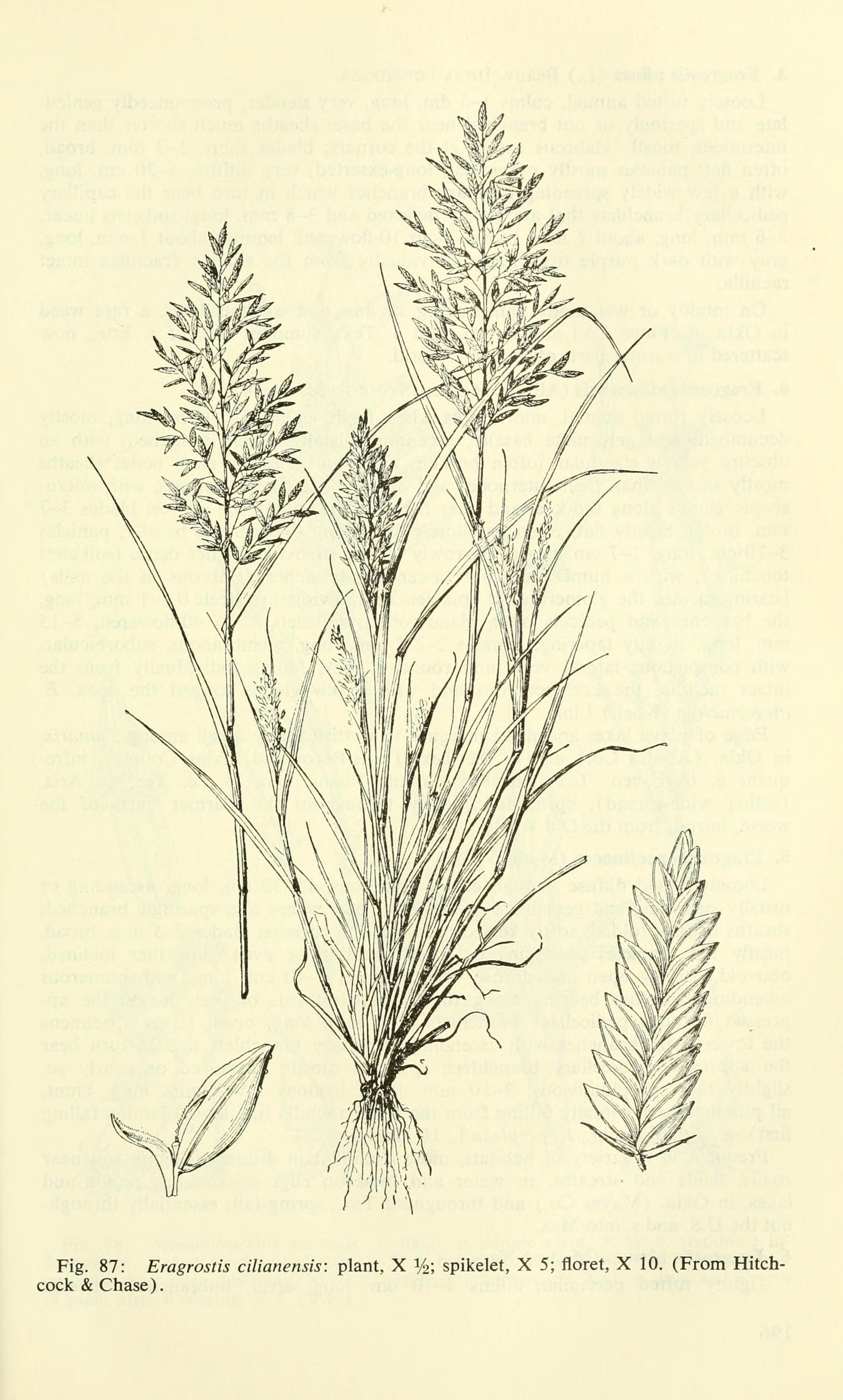 Title: Aquatic and wetland plants of southwestern United States Year: 1972 (1970s) Authors: Correll, Donovan Stewart, 1908-; Correll, Helen B Subjects: Aquatic plants -- Southwestern States; Wetland plants -- Southwestern States Publisher: [Washington Environmental Protection Agency; [For sale by the Supt. of Docs. , U. S. Govt. Print. Off. Text Appearing Before Image: ' Text Appearing After Image: Fig. 87: Eragrostis cilianensis: plant, X 1/2; spikelet, X 5; floret, X 10. (From Hitch- cock & Chase).